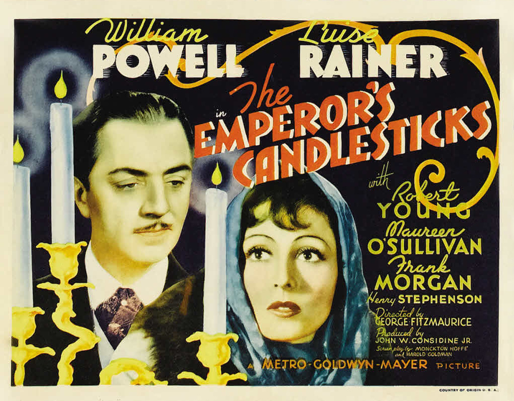 Film poster/lobby card for the 1937 film The Emperor's Candlesticks.